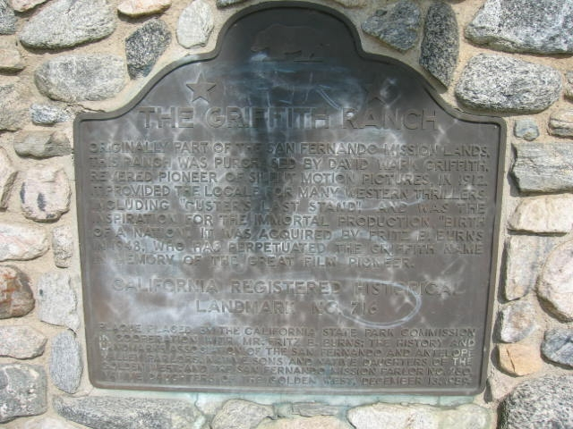 California Historical Marker #716 marking the site of the D.W. Griffith movie ranch in the eastern San Fernando Valley. It is located at the corner of Foothill Blvd. and Vaughn St. in Sylmar, Los Angeles, Southern California.